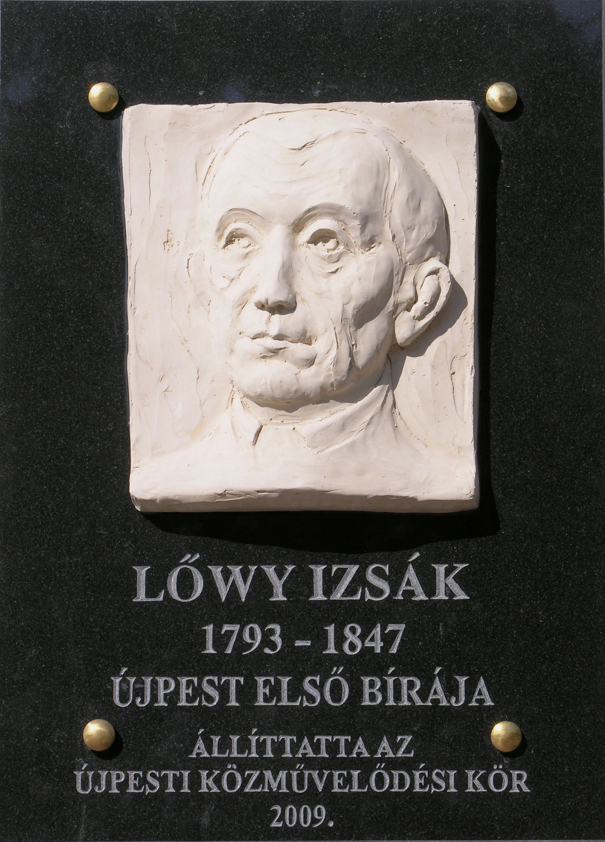 Commemorative plaque of Izsák Lőwy (1793-1847), Hungarian industrialist and the first mayor of the city Újpest. (Budapest, District IV, Street István Nr 14).